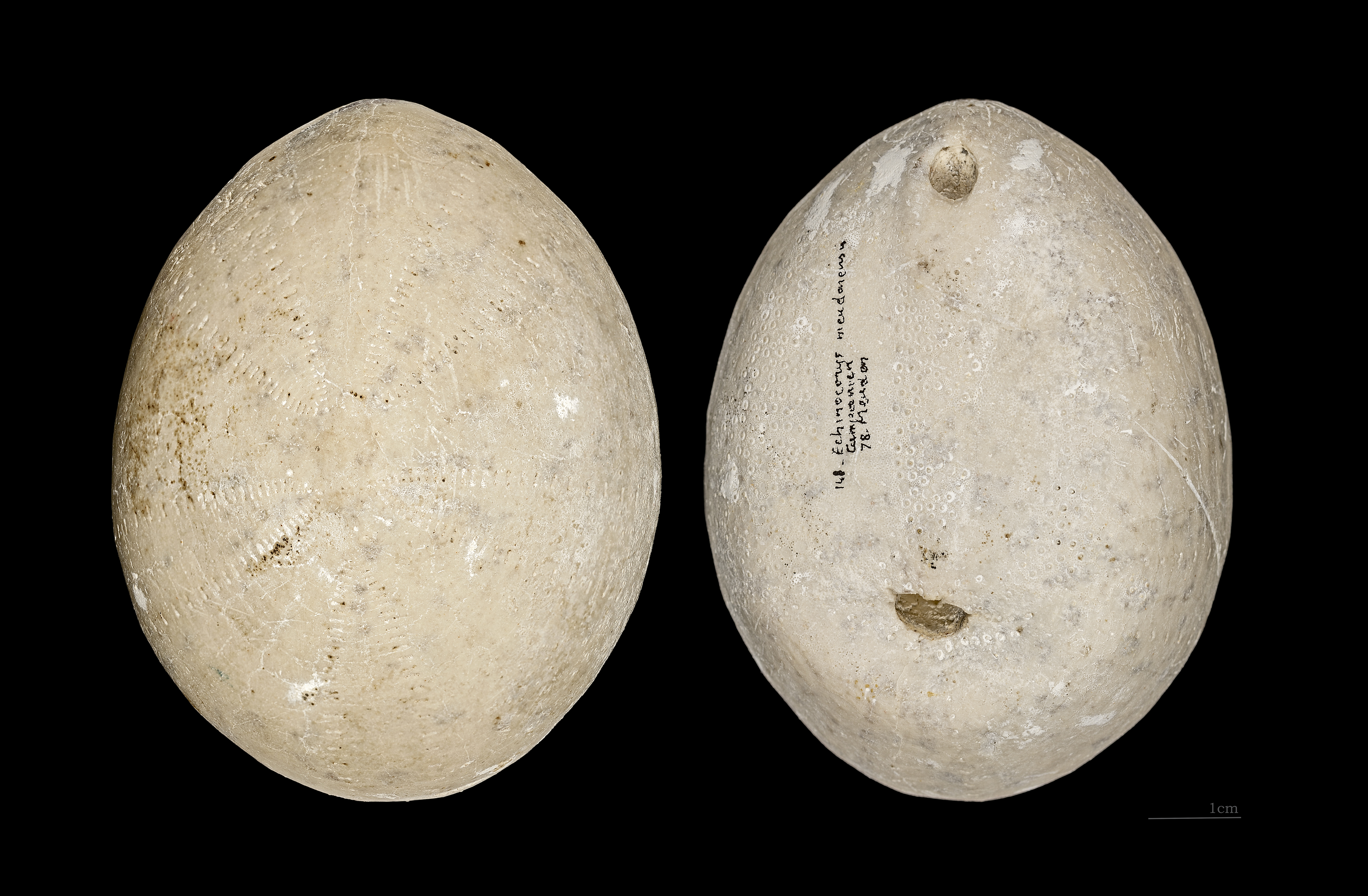 Echinocorys meudonensis Stage : Campanian from 83.6 ± 0.7 Ma to 72.1 ± 0.6 Ma.